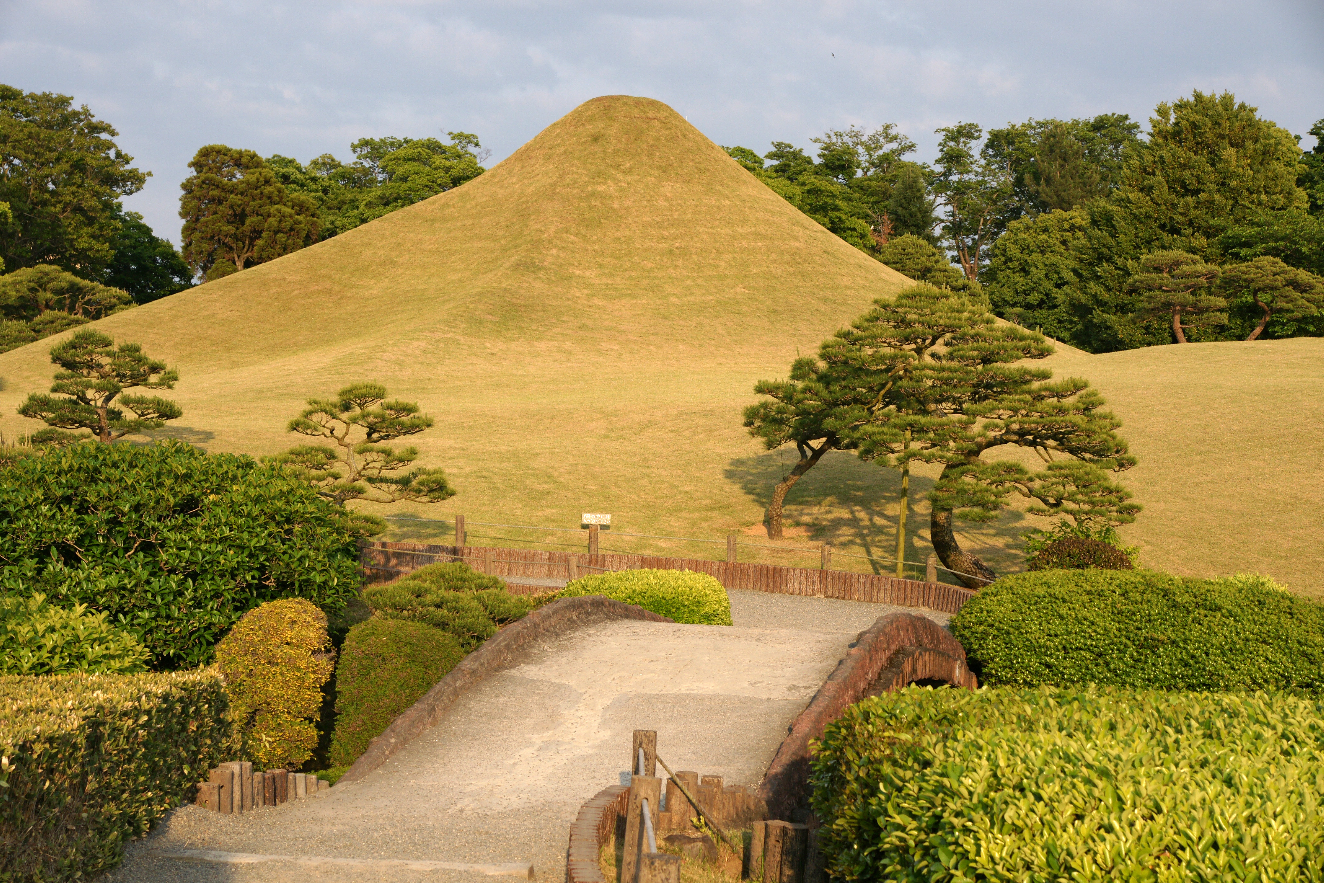 Suizenji-jojuen, Kumamoto, Kumamoto prefecture, Japan